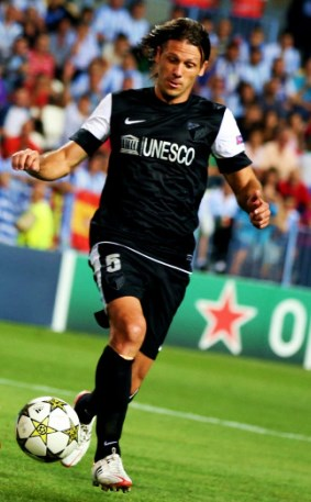 Martín Demichelis